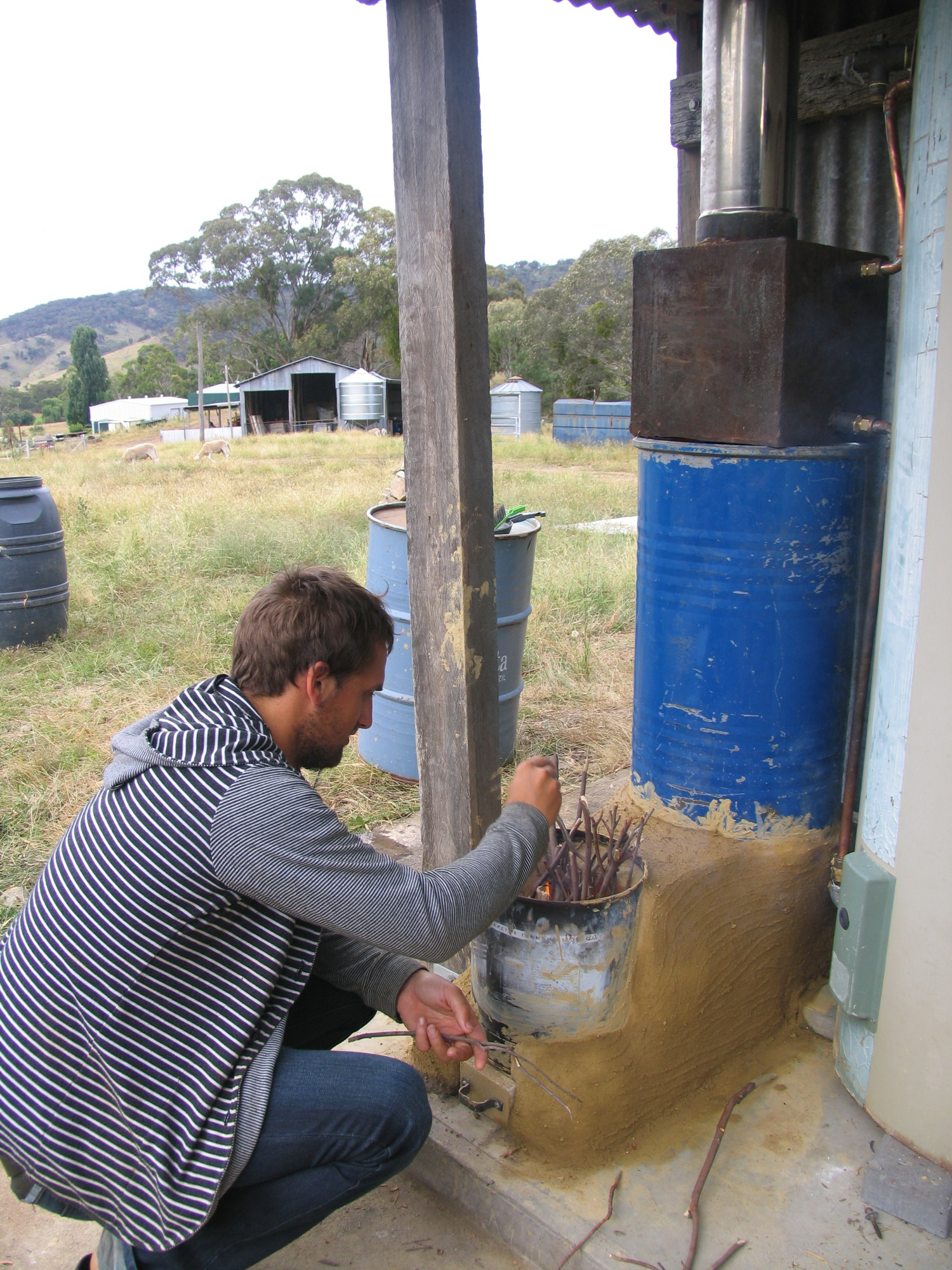 Using a Rocket stove to heat water